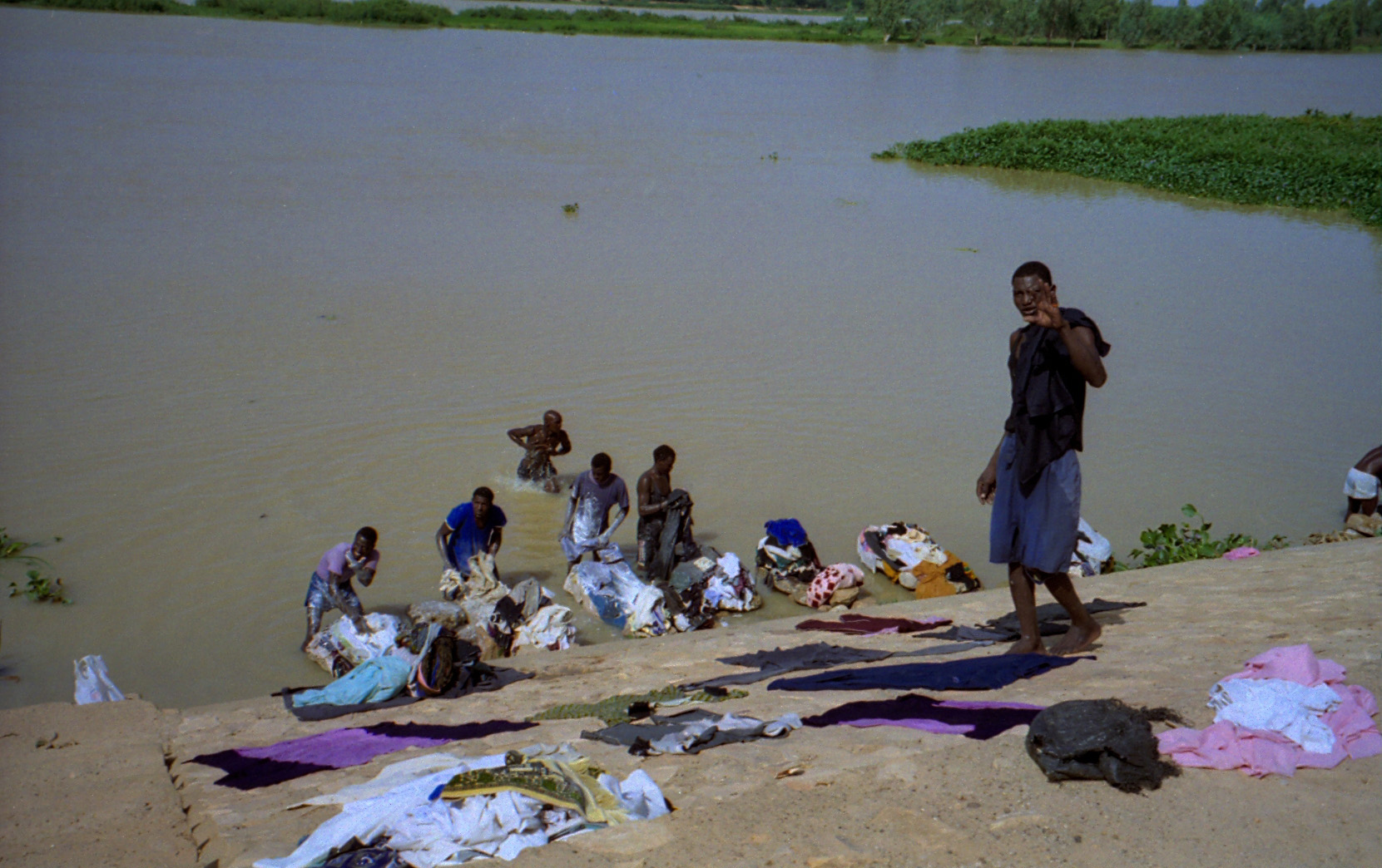 Laundry service in the Niger River in Niamey, the capital of Niger.